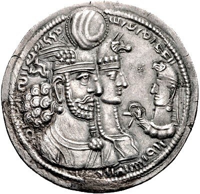 Coin of Bahram II with female figure and unbearded youth.